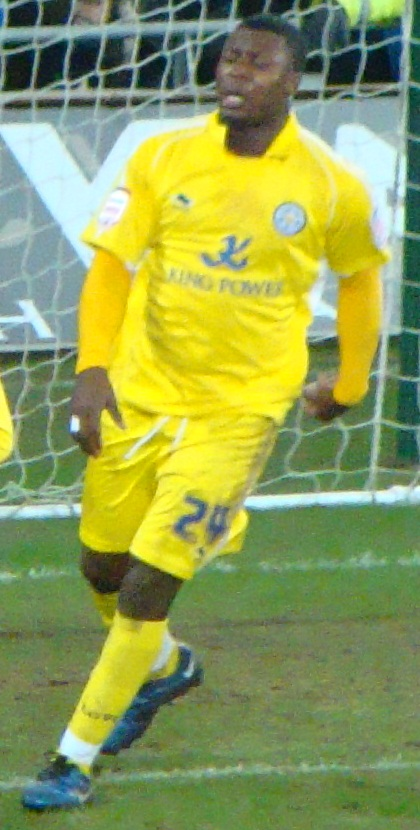 22/02/11 Cardiff V Leicester, Championship, Cardiff City Stadium, Cardiff, Wales